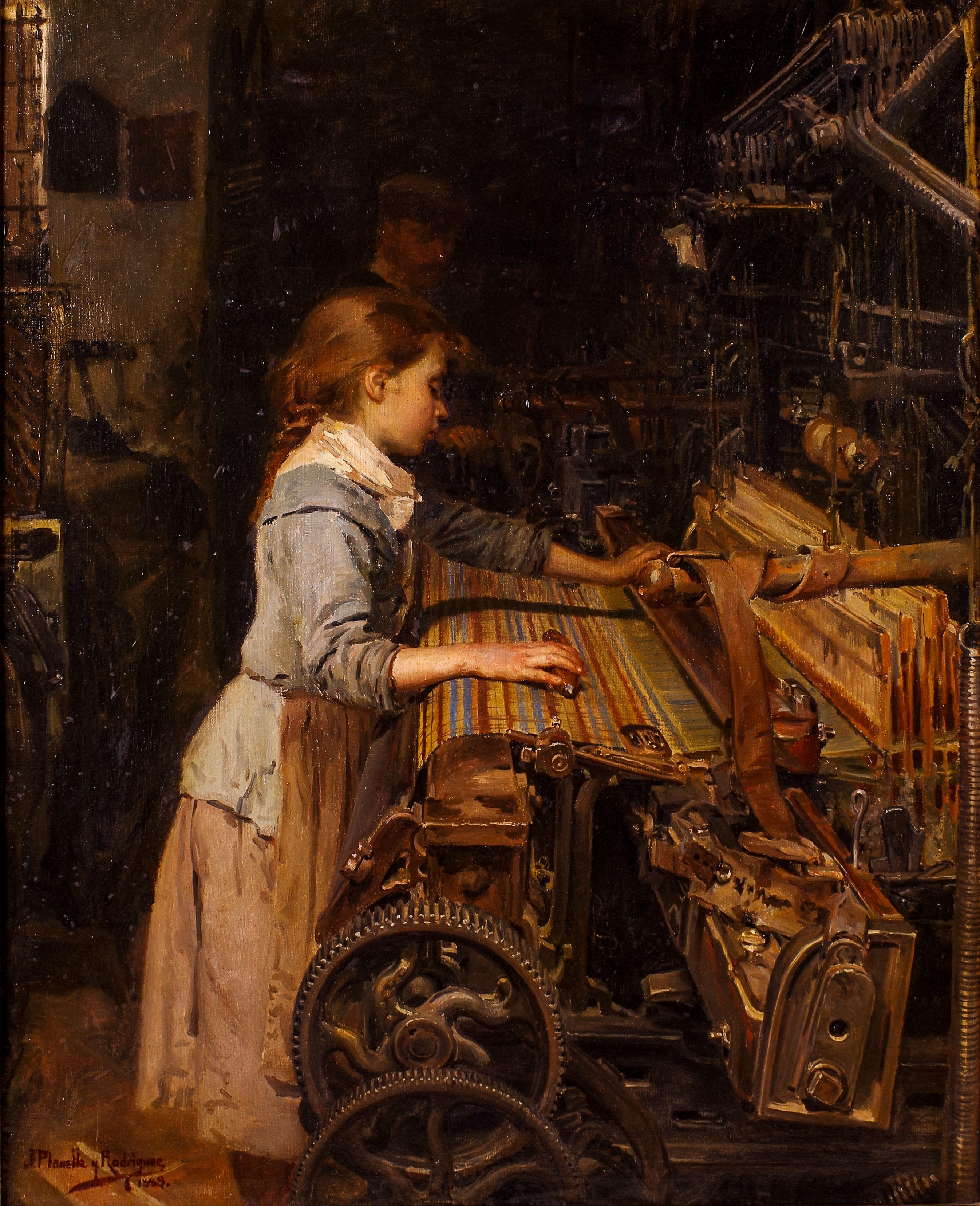 "The little weaver" by Joan Planella and Rodríguez. Probably made ​​in 1885 but dated in 1889, it is a replica of another original one from 1882, which received a remarkable success and many awards. It belongs to Realism style. This second version is an oil on canvas with dimensions of 67x55cm. The composition of the picture represents the child labor in Nineteenth Century textile factories in Catalonia. The painting has not intended to make a critique of child labor in the factories, just wanted to reflect a daily scene. This replica received the same warm welcome as the original, but the press of the time did not differentiated. In them the author got the balance between realism and feeling. This second version was in 1893 at the Chicago World's Fair, where it received a medal. Acquired then by the Fall Festivities Association of Saint Louis, joined the City Art Museum of the population as part of the Washington University Collection. However, in 1945 the museum withdrew the painting and sold at public auction in New York. It is then entered into private hands, to be finally acquired by the Museu d'Història de Catalunya in December 2012, after public sale in Balclis auction house -with the registration number MHC4204. You can see the back of the picture at File:Revers nena obrera.JPG